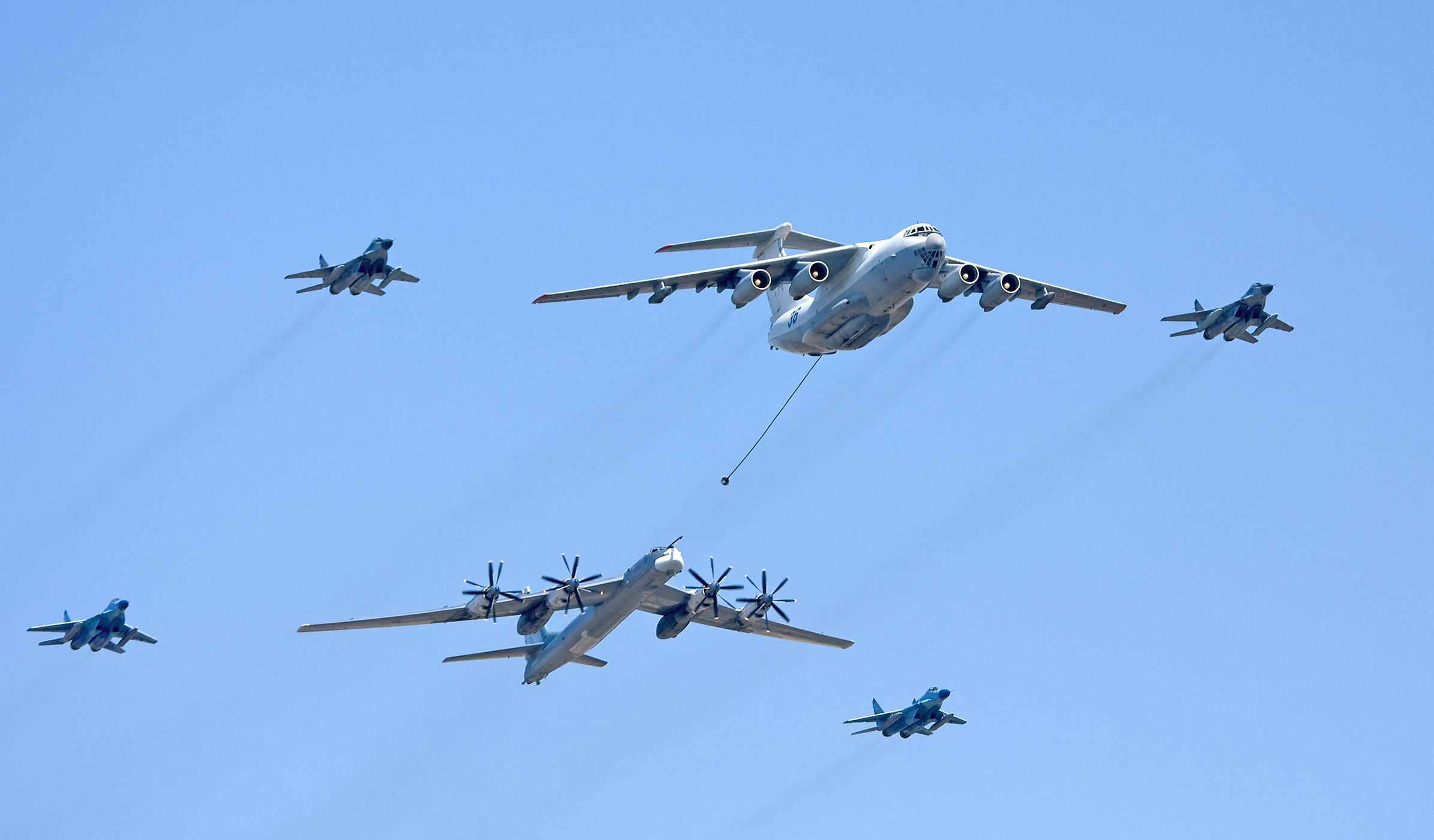 Tupolev Tu-95 on Victory Day parade in Moscow, Russia.